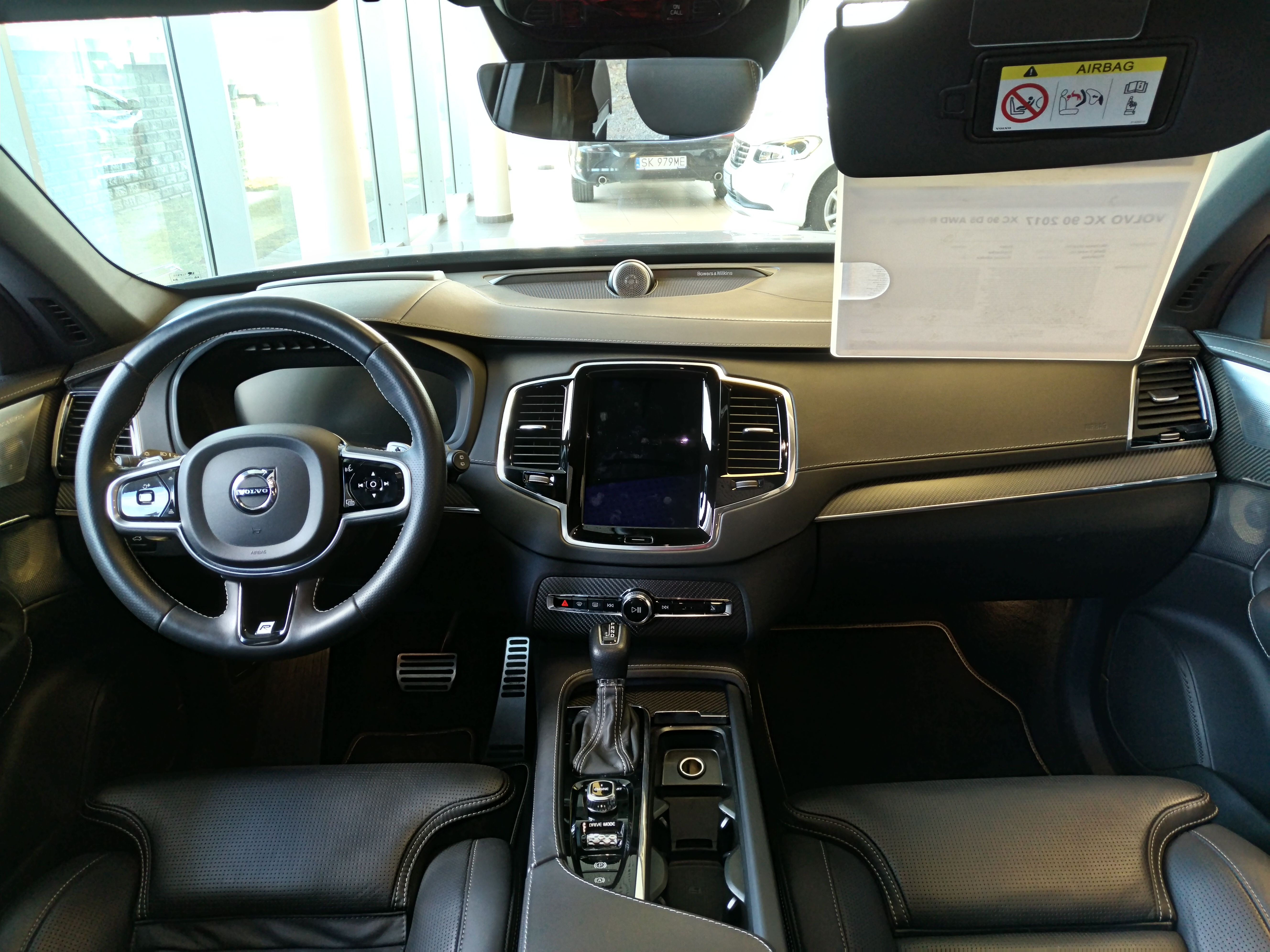 Volvo XC90 II (2017) interior